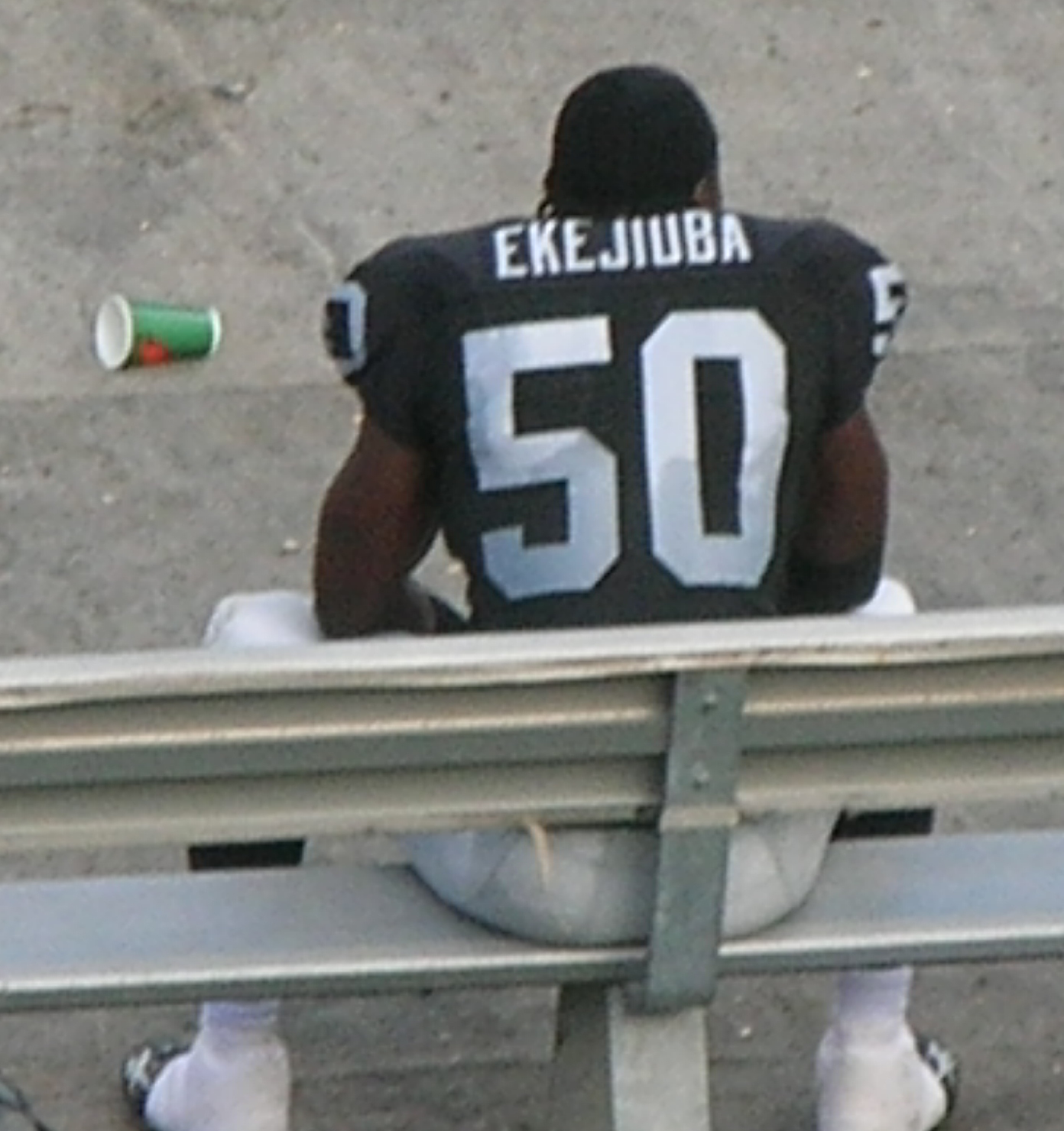 Oakland Raiders linebacker Isaiah Ekejiuba at a home game against the Atlanta Falcons. The Falcons won 24-0.